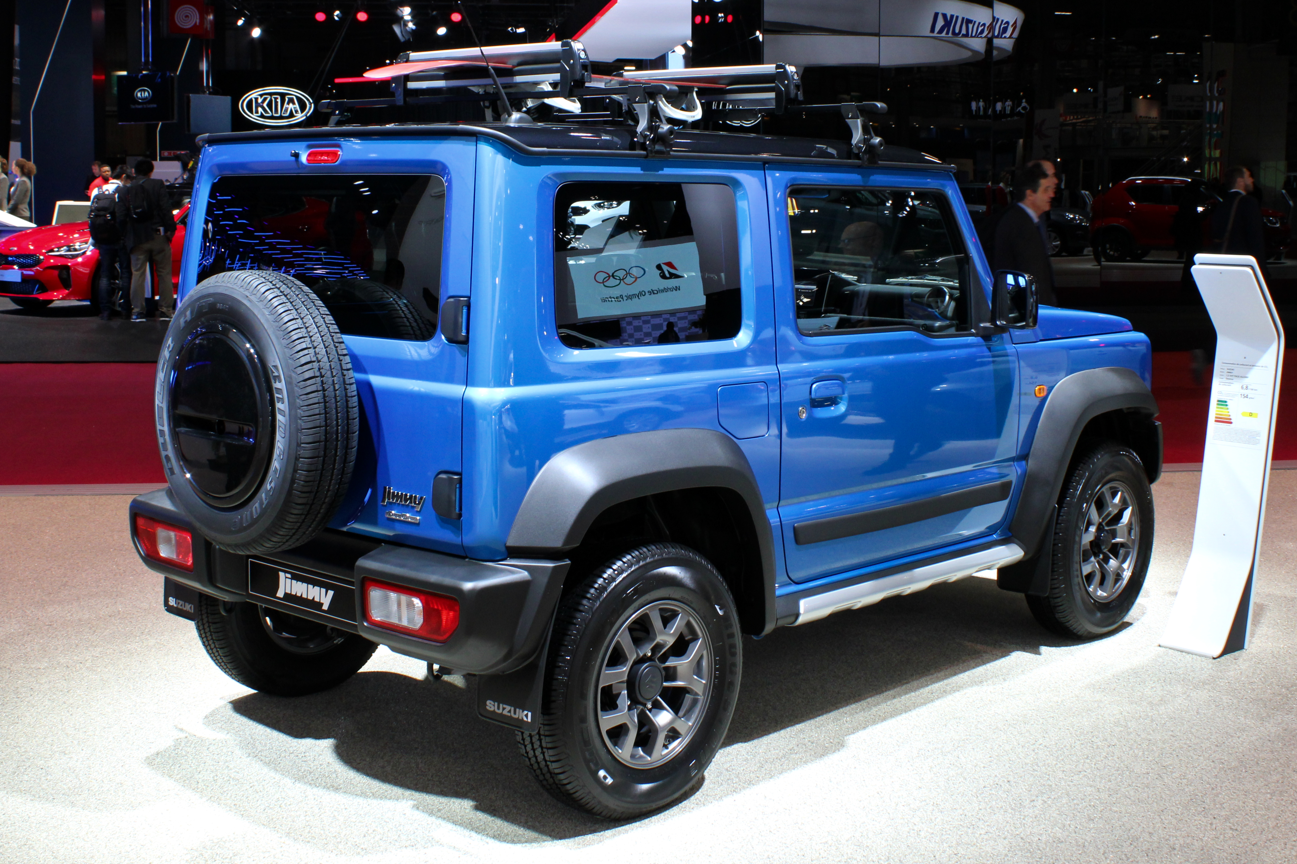 Suzuki Jimny at Paris Motor Show 2018